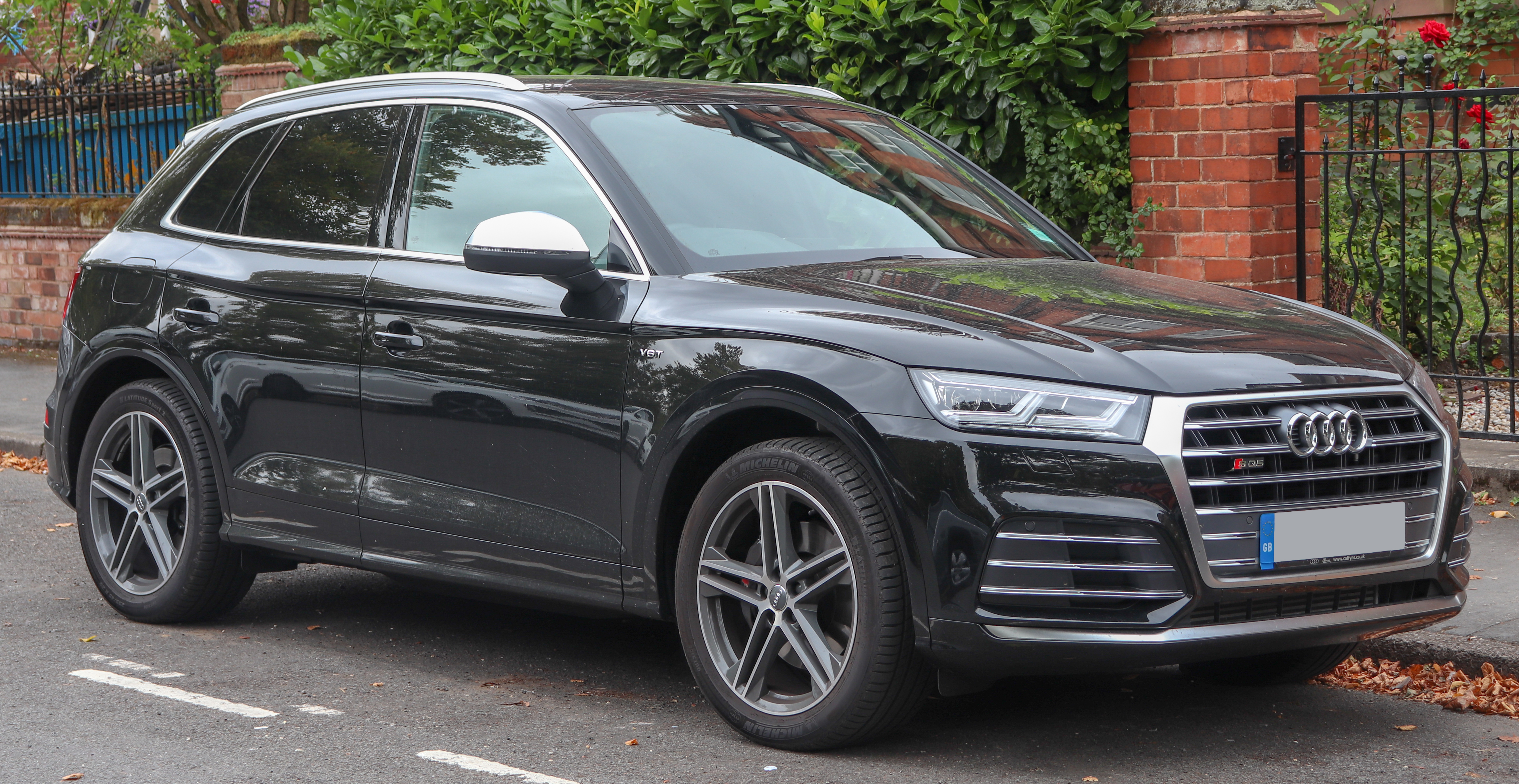 2018 Audi SQ5 TFSi Quattro Automatic 3.0 Front Taken in Leamington Spa